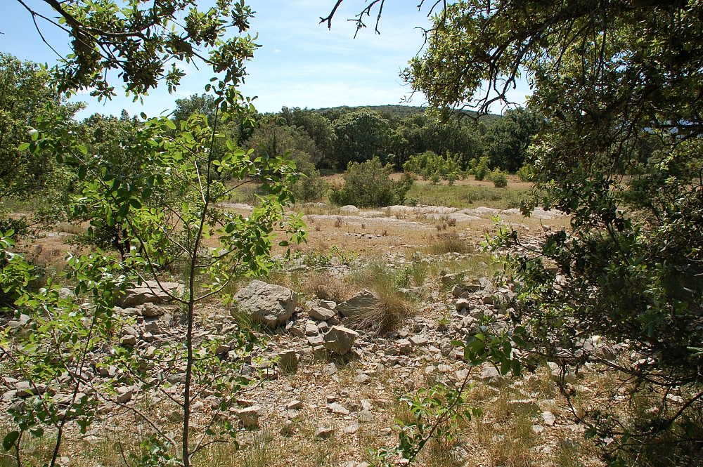 Centipede Scolopendra cingulata - Habitat, Frouzet, Languedoc-Roussillon, France